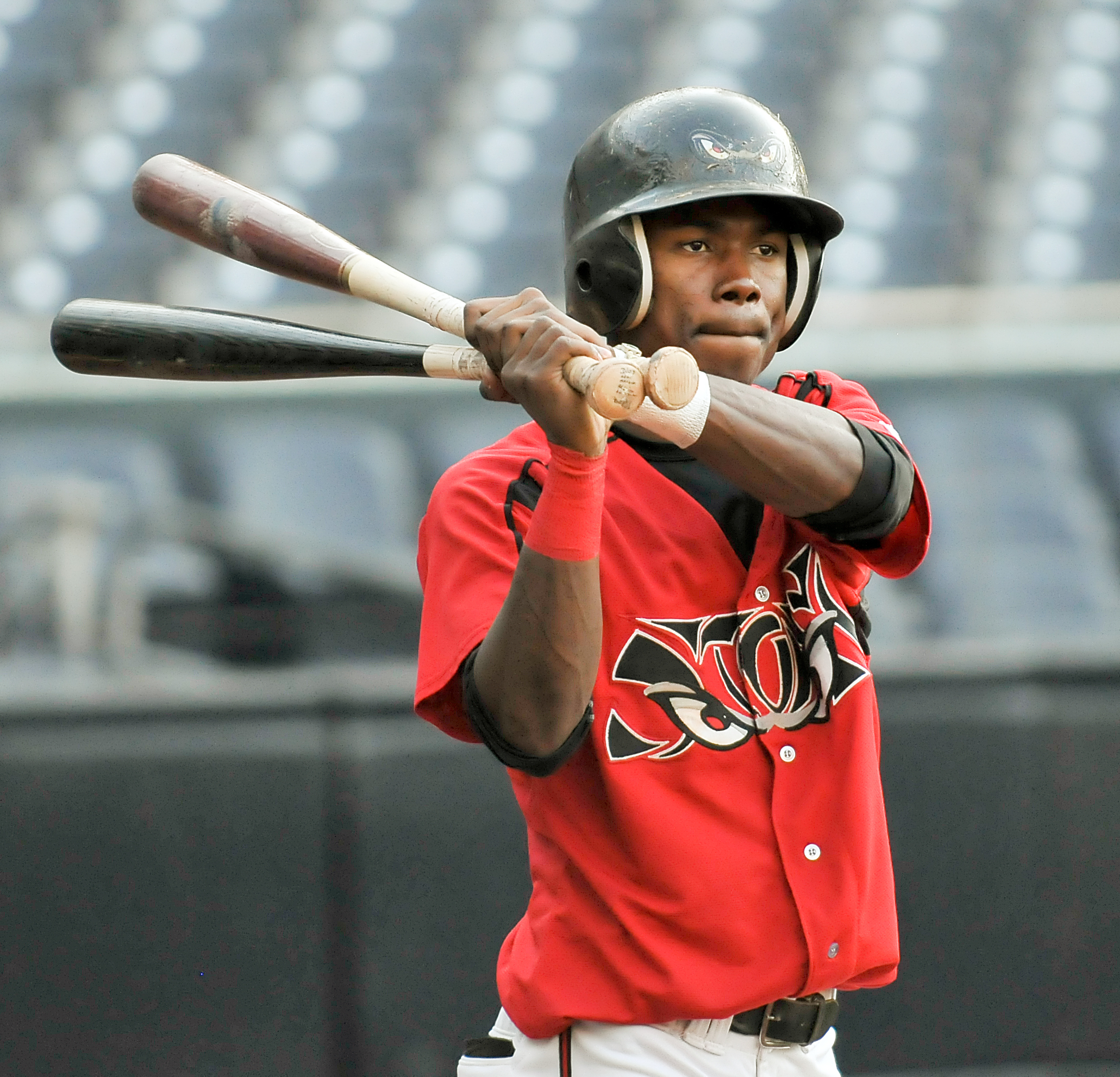 Luis Durango, baseball player for the Lake Elsinore Storm in 2008.